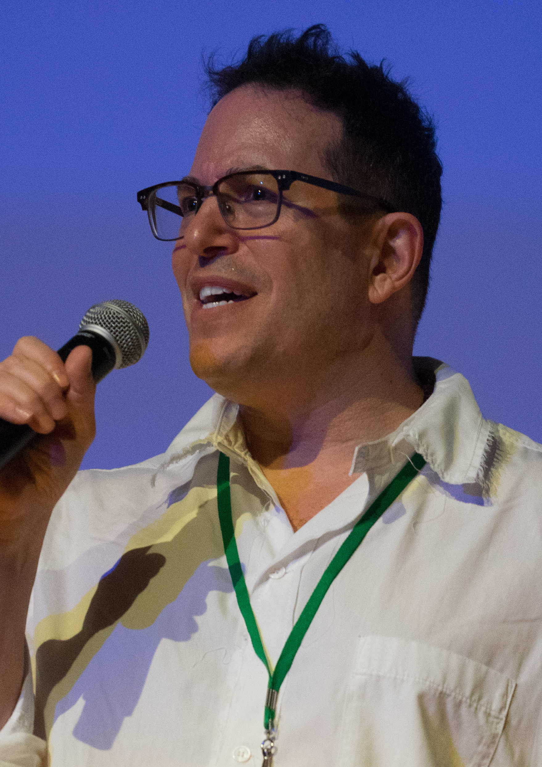 photo by "Aytek Demir / Montclair Film"